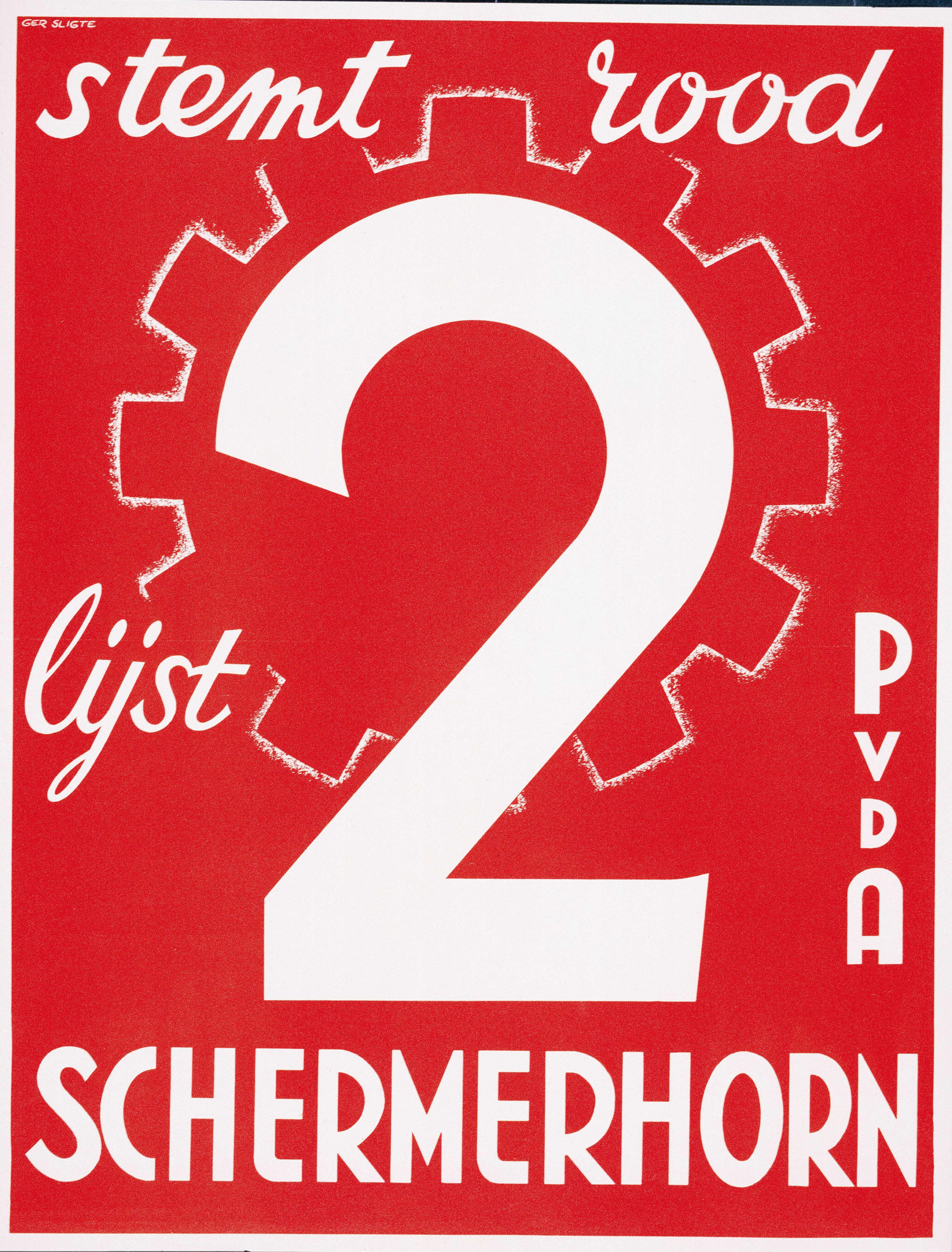 Poster used in the general elections of 1946 by the Dutch Labor Party. Design by Ger Sligte